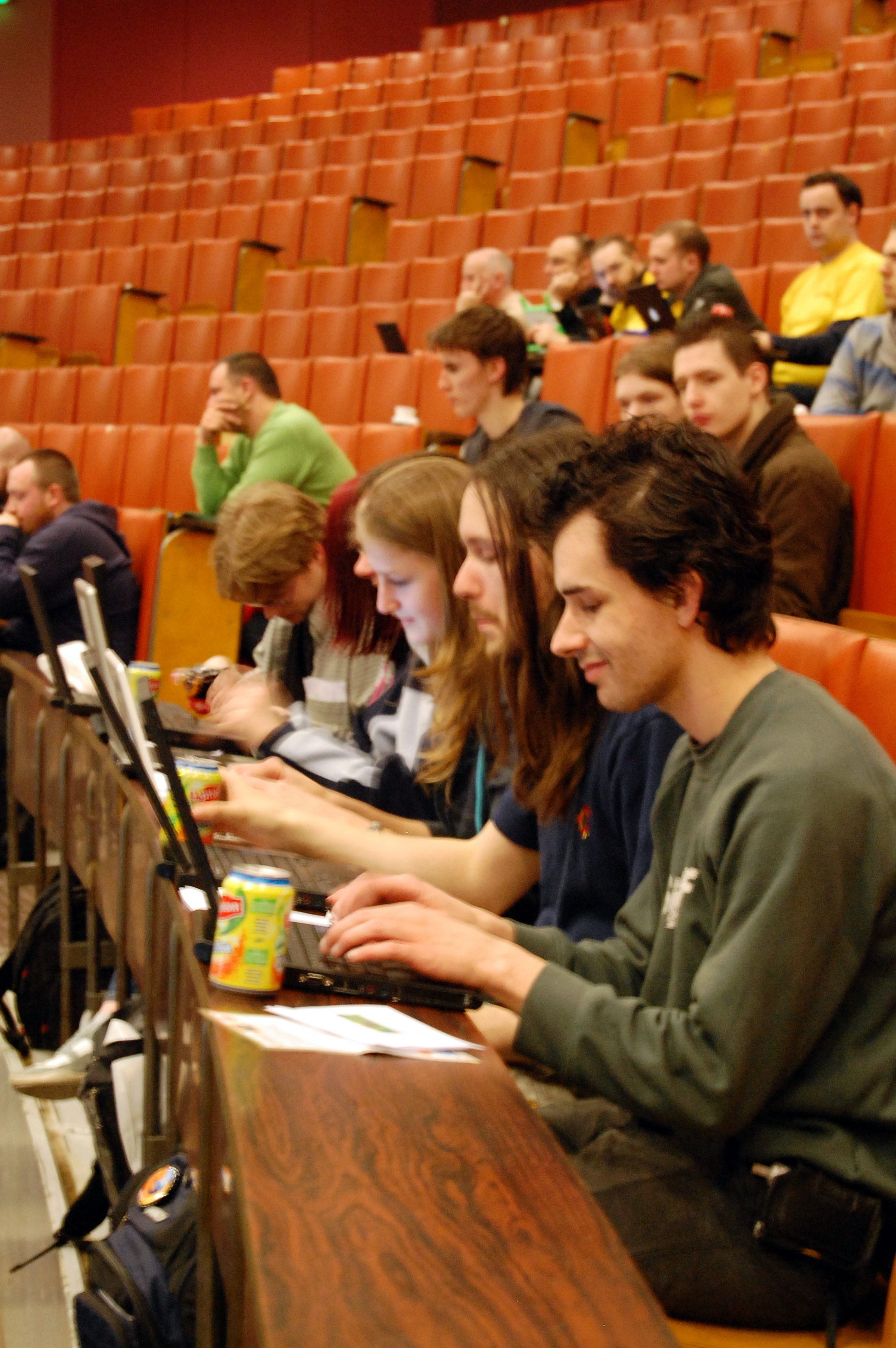 Picture from FOSDEM 2008.